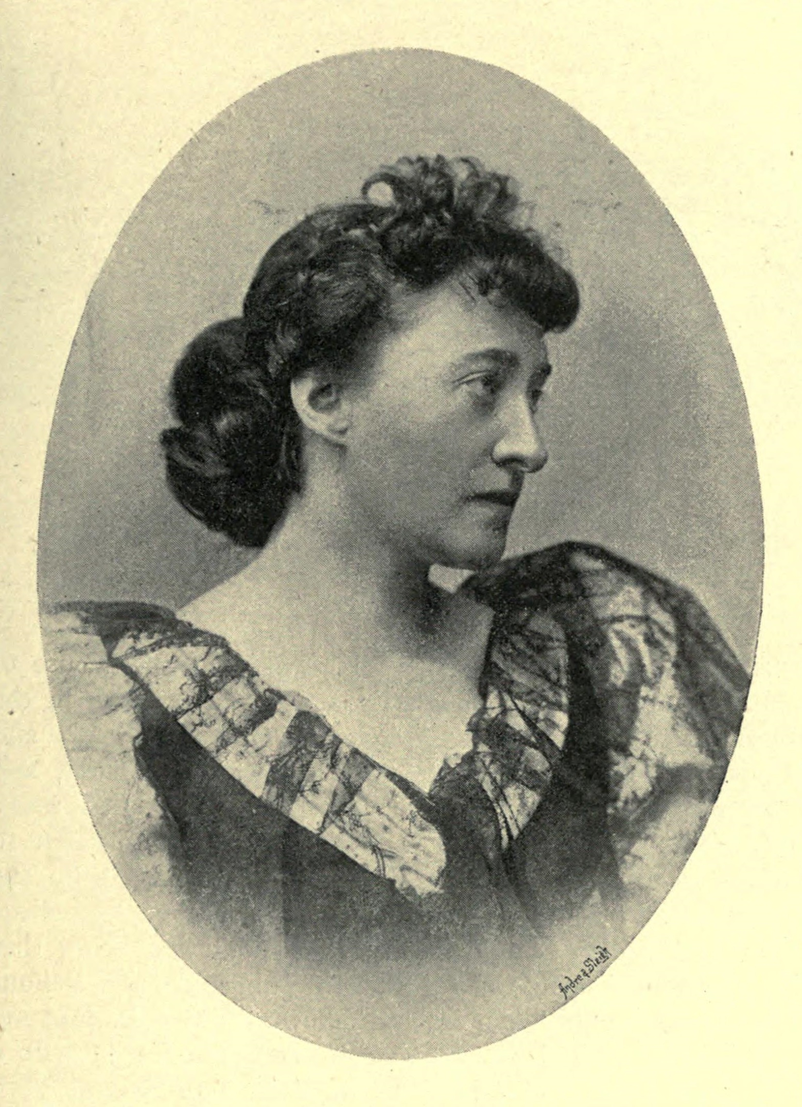 Portrait of Sarah Grand